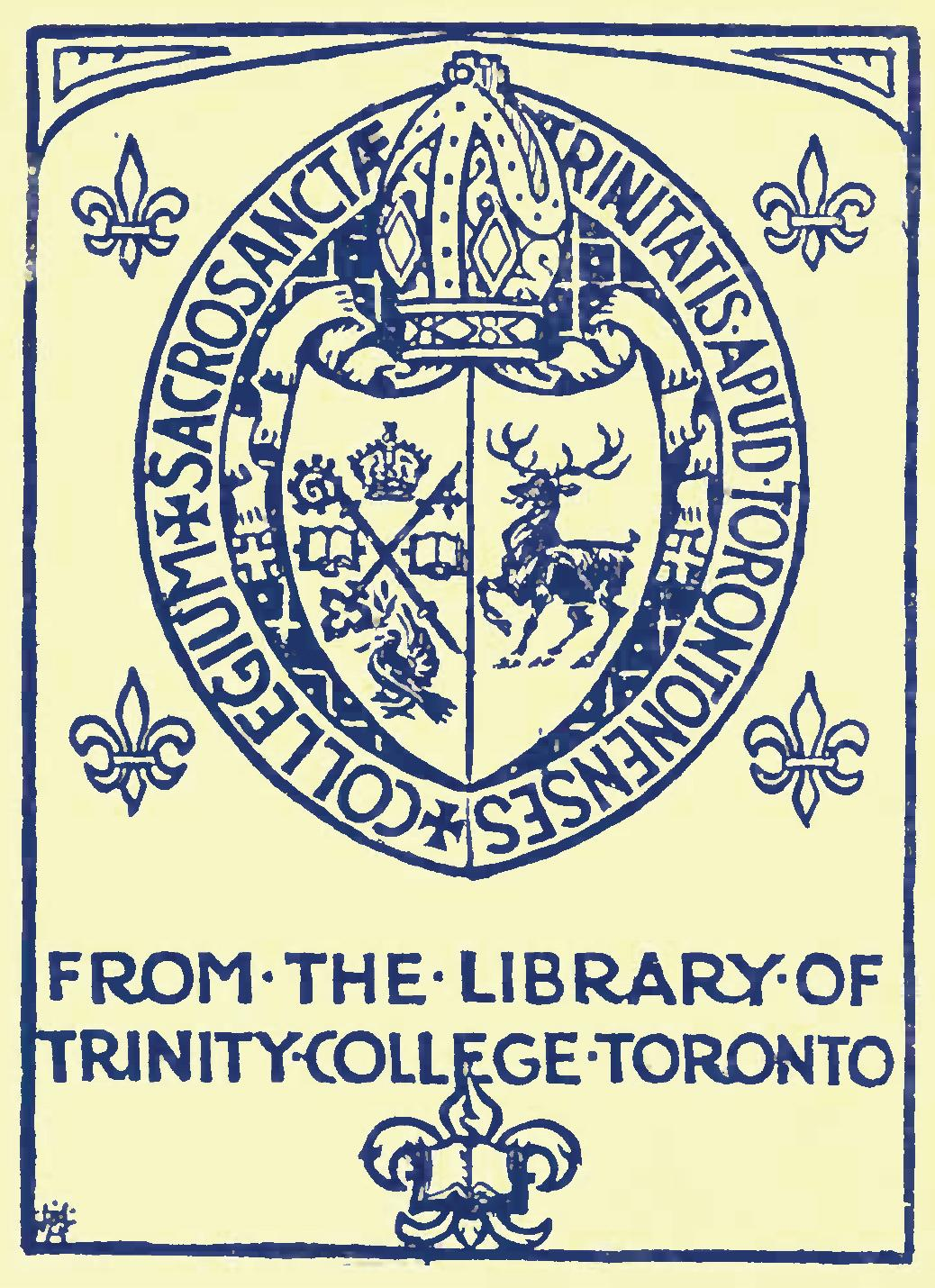 A book plate used by the library of the University of Trinity college for most of the 20th century.